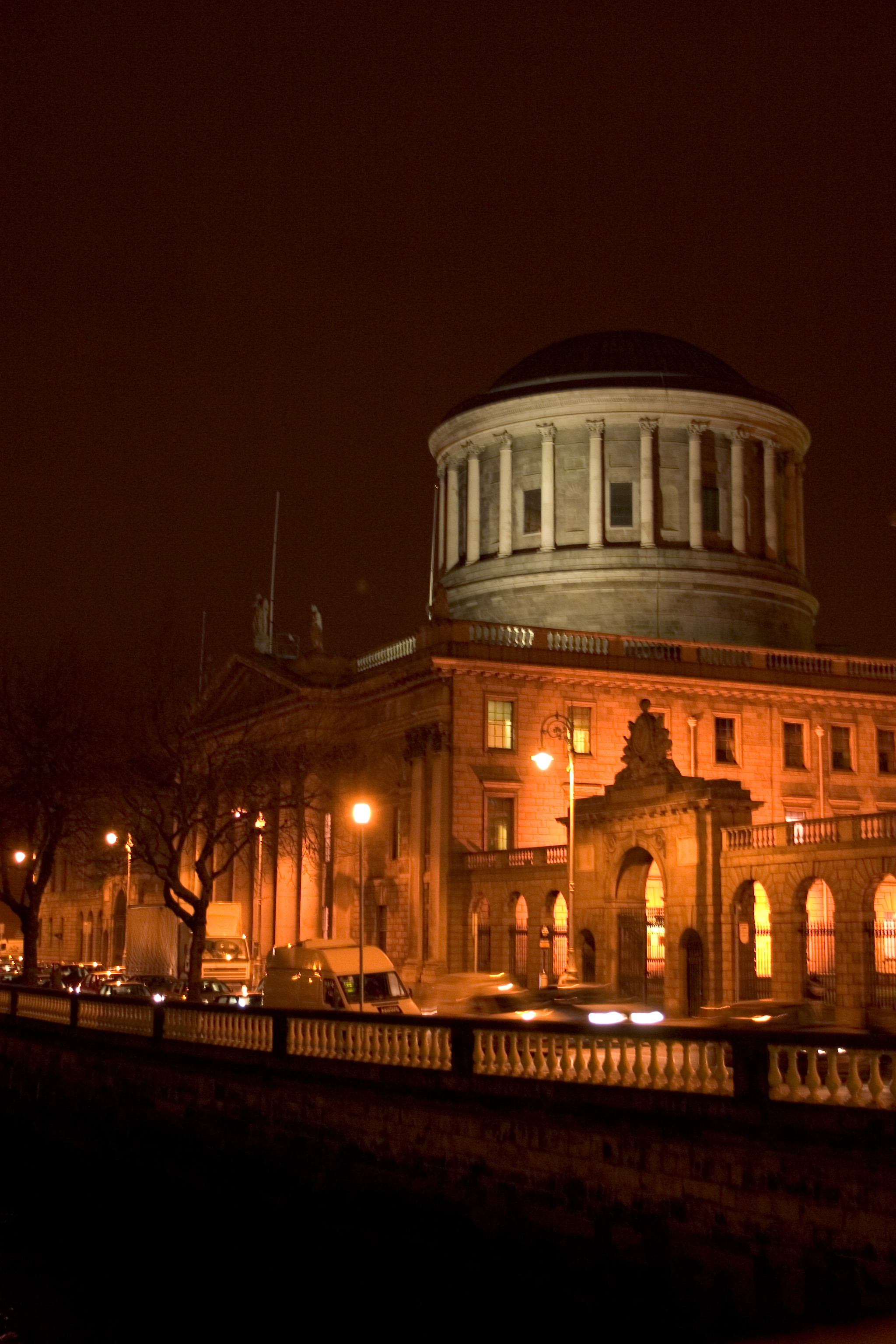 Night shot of the Four Courts, Dublin, Ireland.